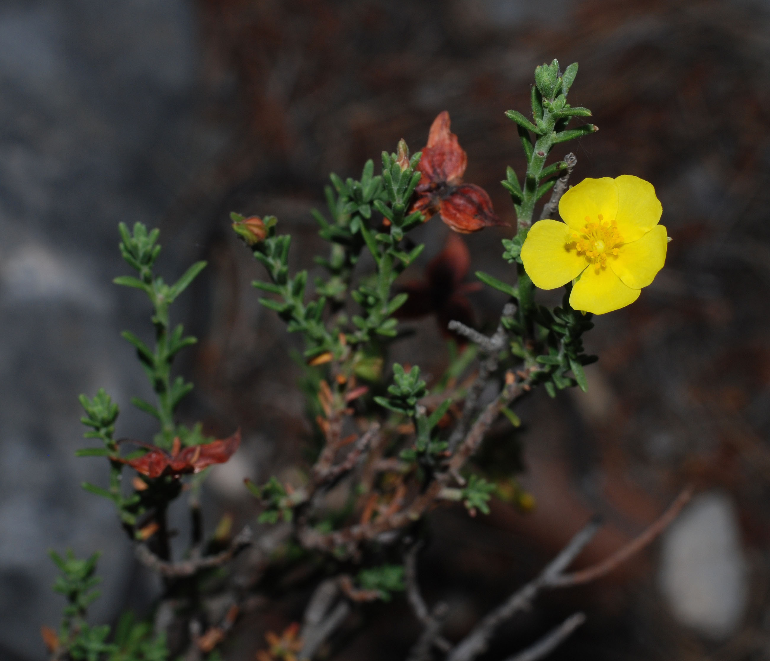 Fumana ericoides, Sant Antoni, Ibiza